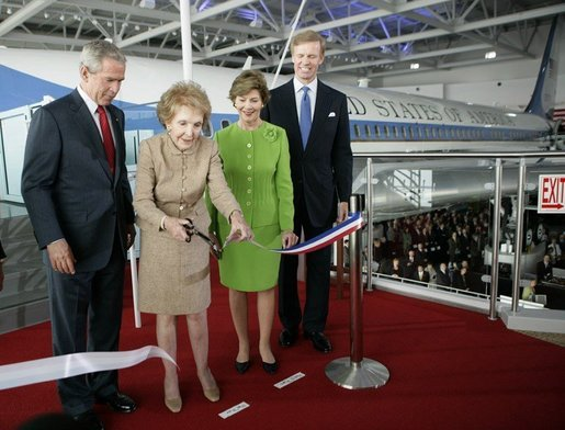 President George W. Bush and Laura Bush join Nancy Reagan, Friday, Oct. 21, 2005, as she cuts the ribbon to officially open the Air Force One Pavilion at the Ronald Reagan Library in Simi Valley, Calif., featuring the Boeing 707 aircraft that served President Ronald Reagan and six other presidents. Fred Ryan Jr. of the Ronald Reagan Presidential Foundation is seen at right. White House photo by Eric Draper.